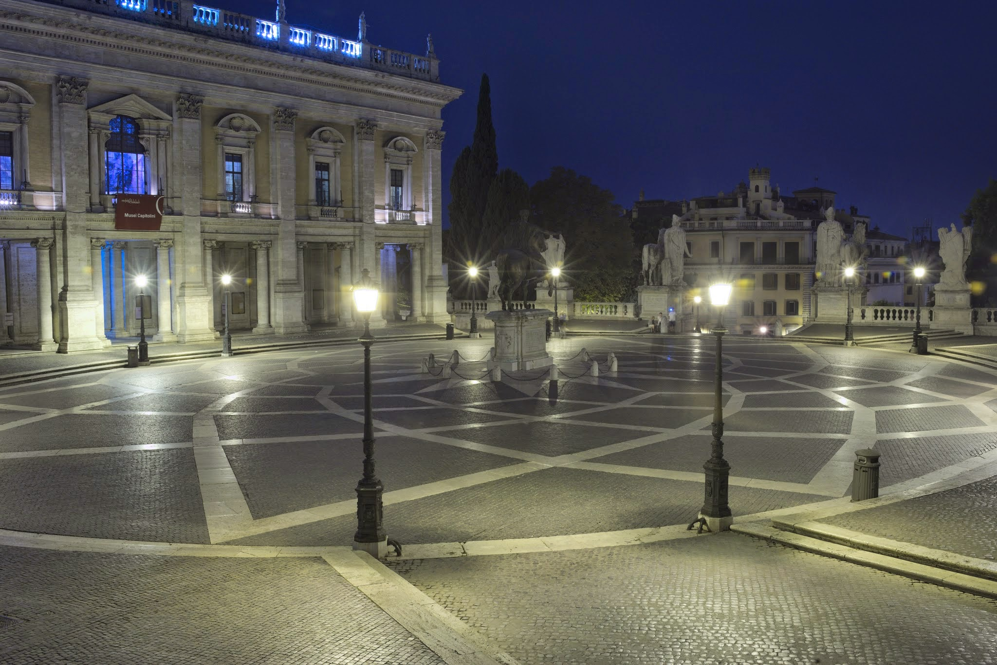 Night photo of the Piazza del Campidoglio on Capitoline Hill, Rome.